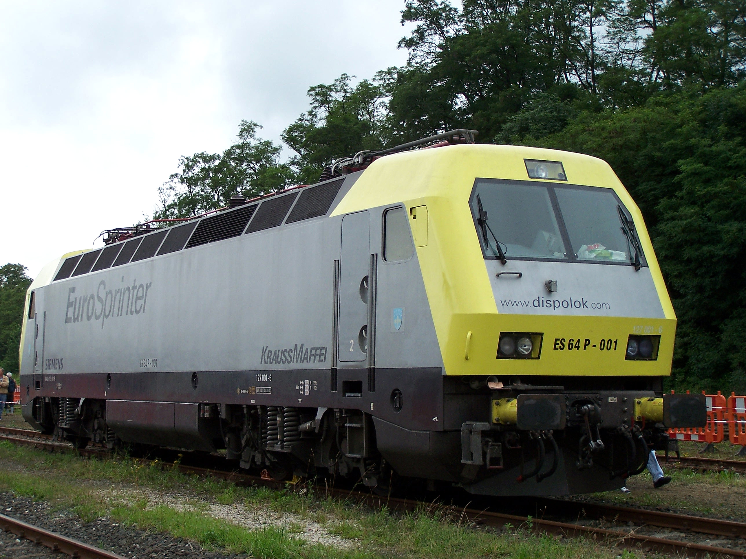 Locomotive Siemens ES64P 001 in Hersbruck, Germany, June 30th, 2007